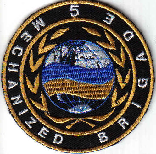 Sleeve patch for the 5th Mechanized Battalion in Iraq